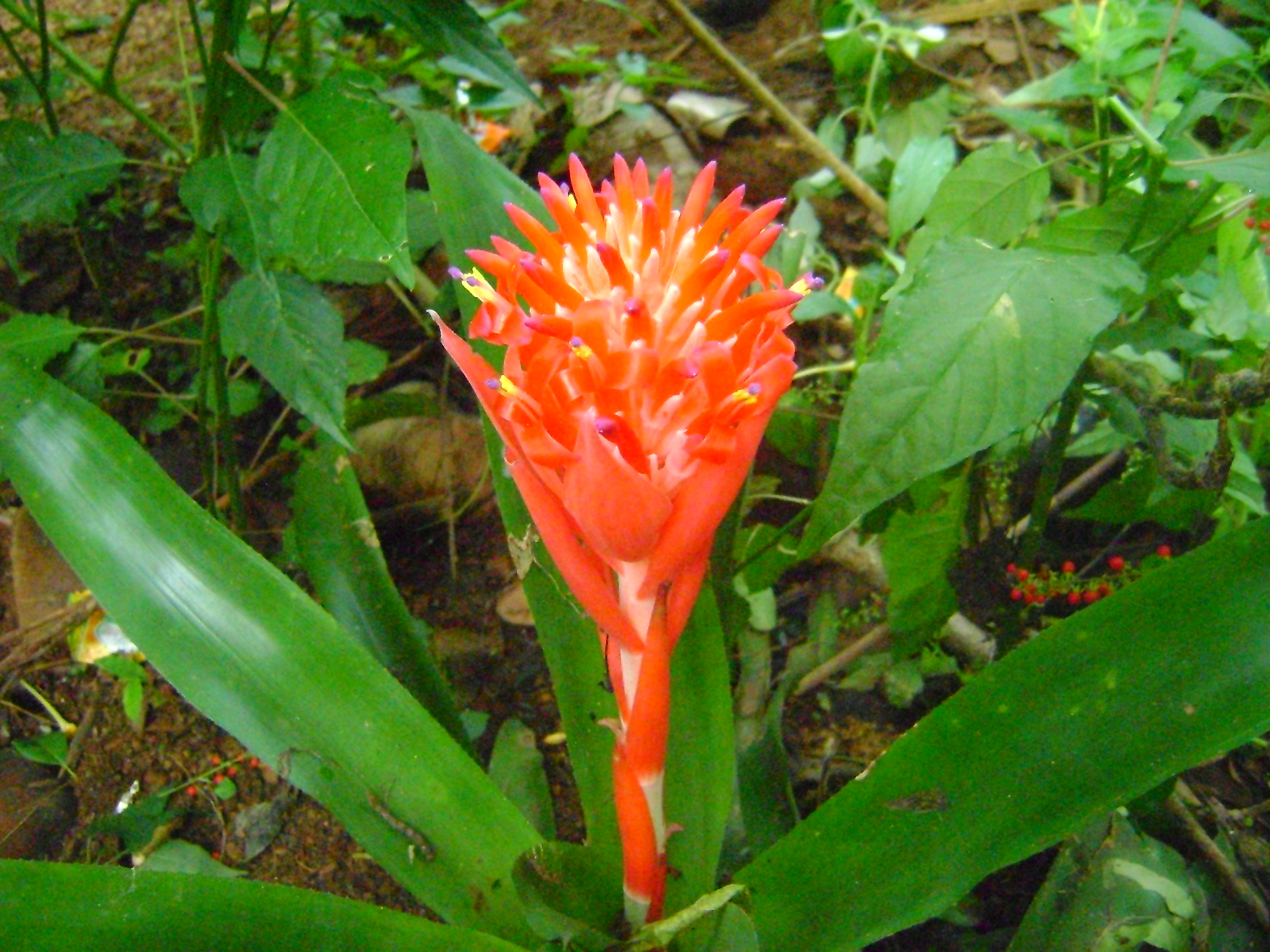 flowers